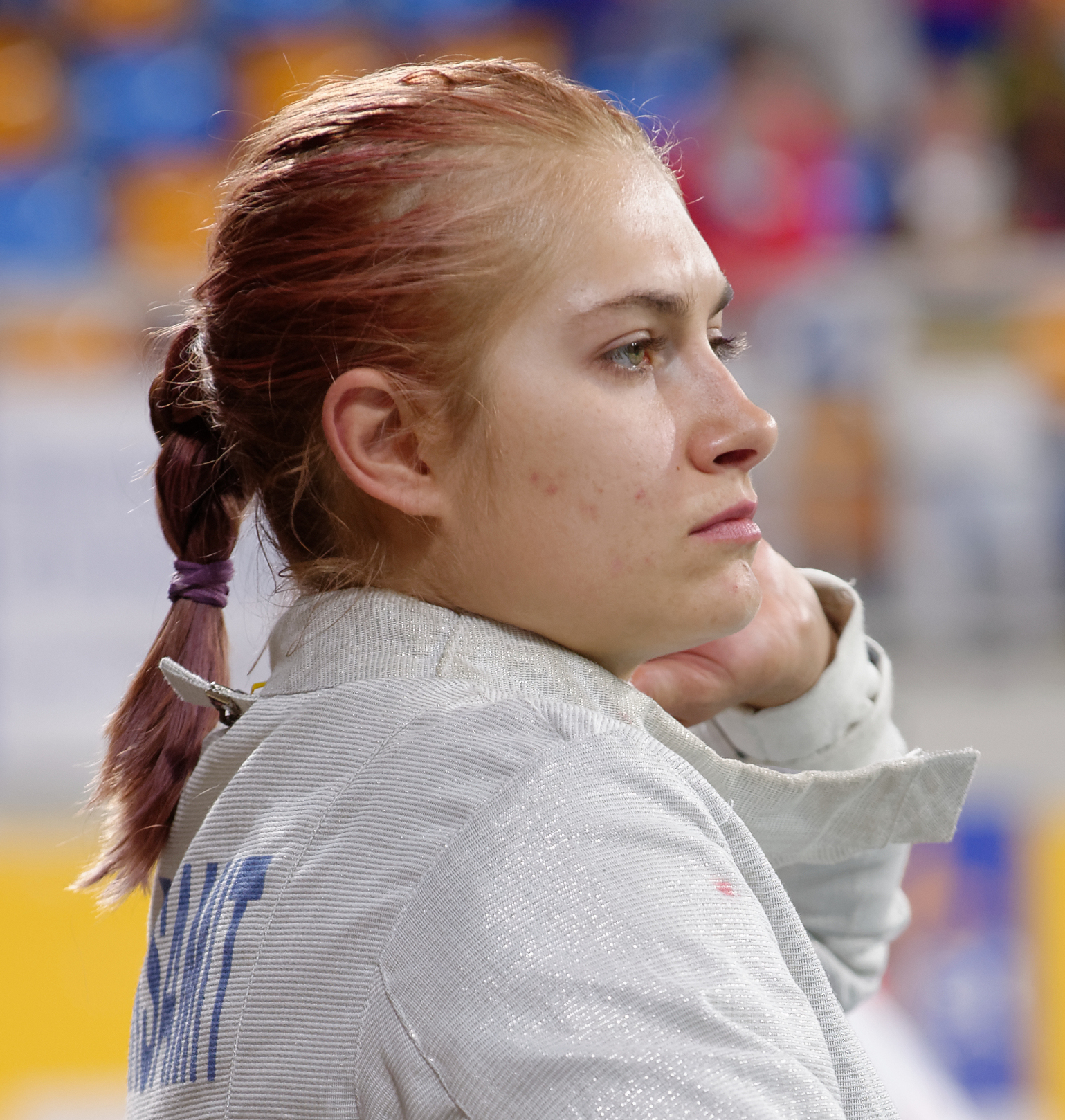 The United States' Monica Aksamit in qualifications for the 2015–16 Orléans World Cup in women's sabre.